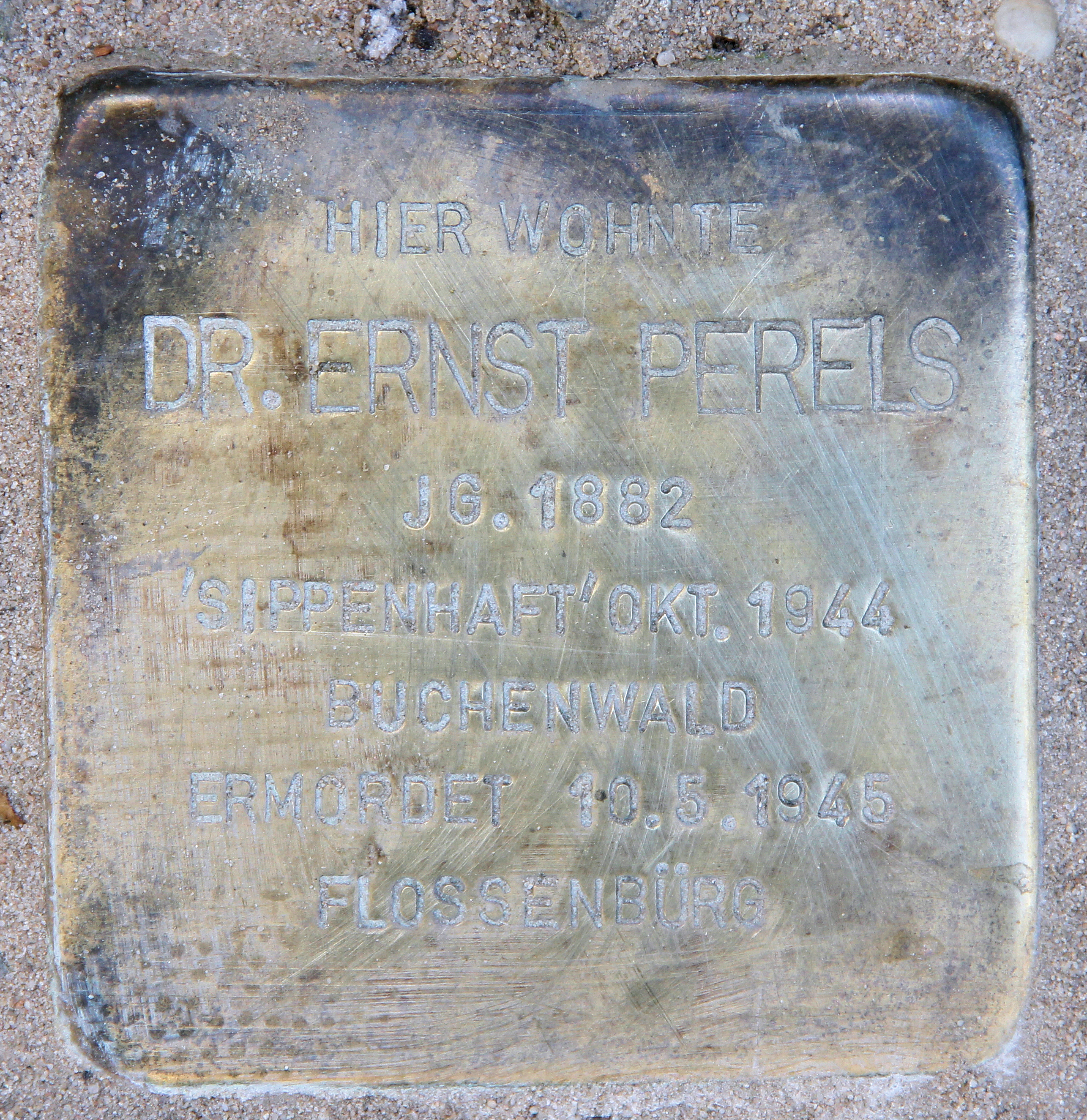 "Stolperstein" (stumbling block), Ernst Perels, Weddigenweg 64, Berlin-Lichterfelde, Germany Koordinate:52°26′2″N 13°18′7″E / 52.43389°N 13.30194°E